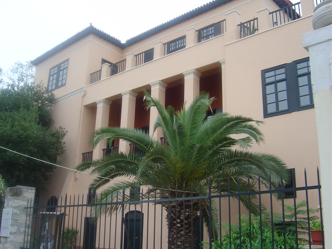 Kleanthis & Schaubert house in Plaka, Athens, Greece